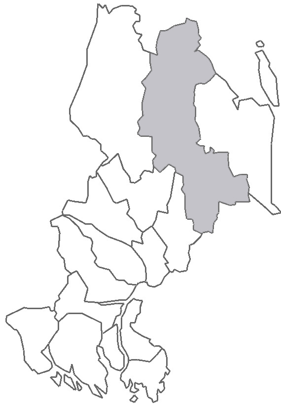 Map describing the location of Oland Hundred in Uppsala County, Sweden.